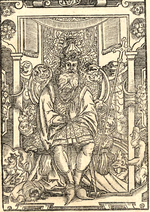 Mieszko I of Poland